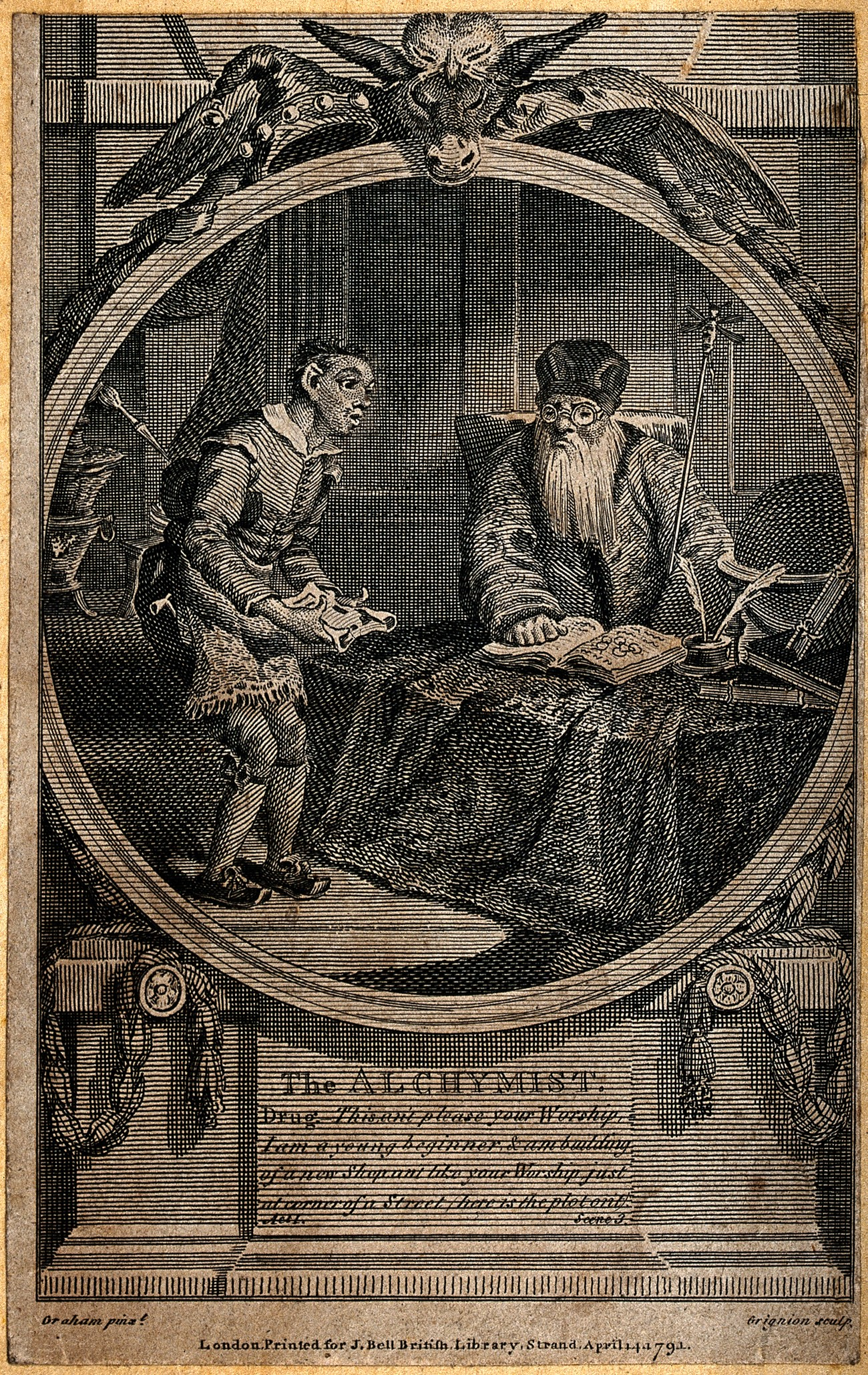 Subtle the alchemist, posing as an astrologer, being visited by Abel Drugger, in Ben Jonson's 'The alchemist'. Engraving by C. Grignion, 1791, after J. Graham. Iconographic Collections Keywords: Ben Jonson; Charles Grignion; John Graham